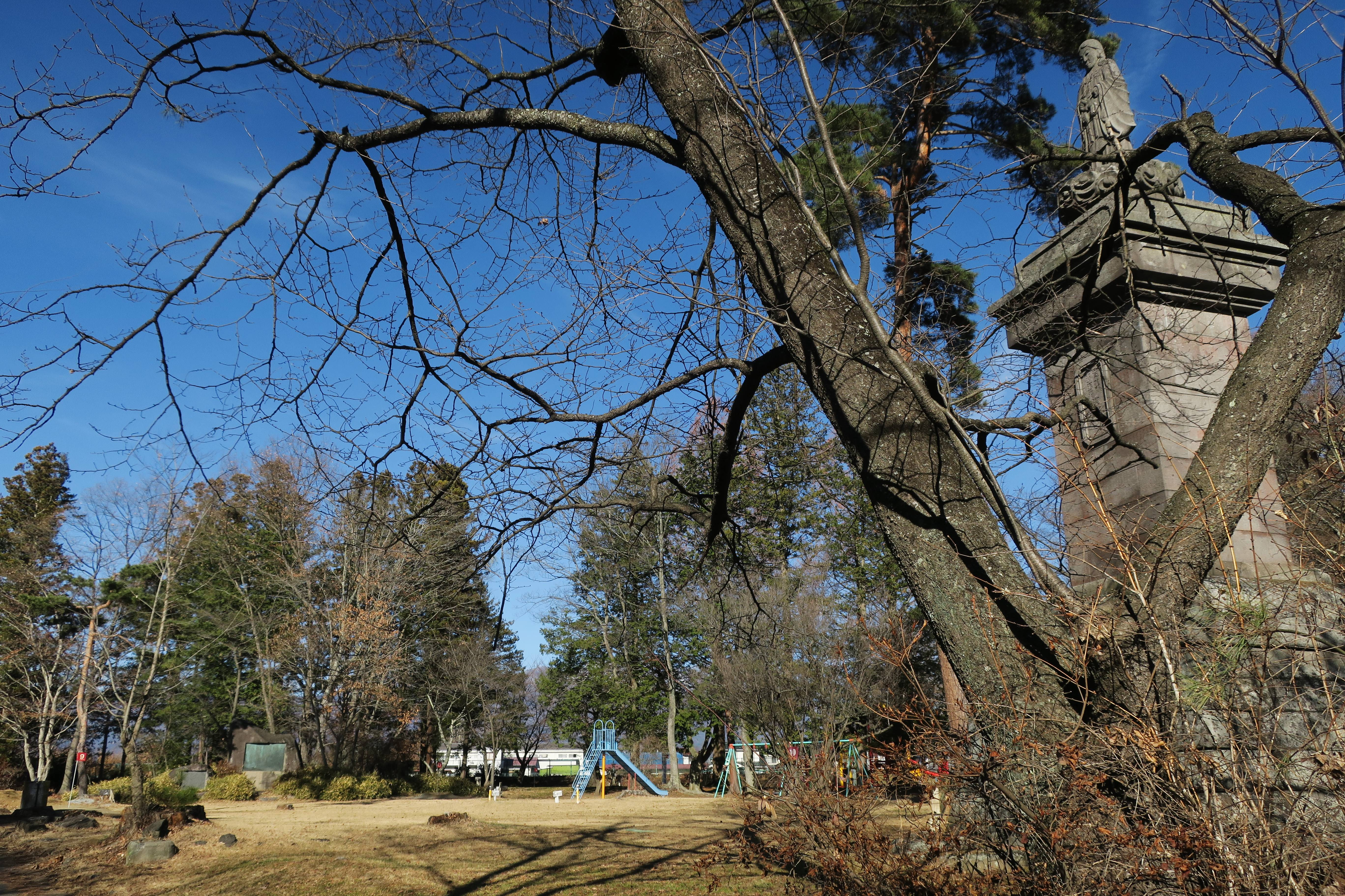 Hanazura Park (Saku, Nagano).